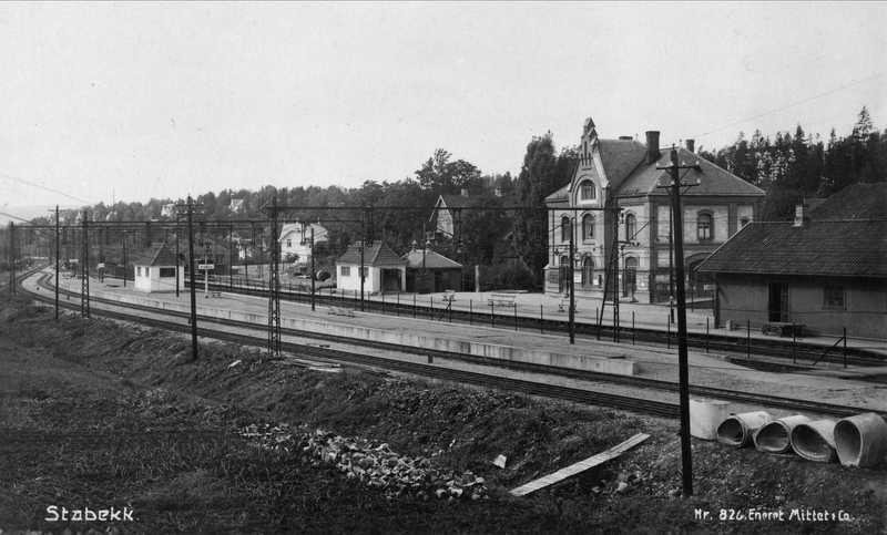 Stabekk Station on the Drammen Line in Bærum, Norway